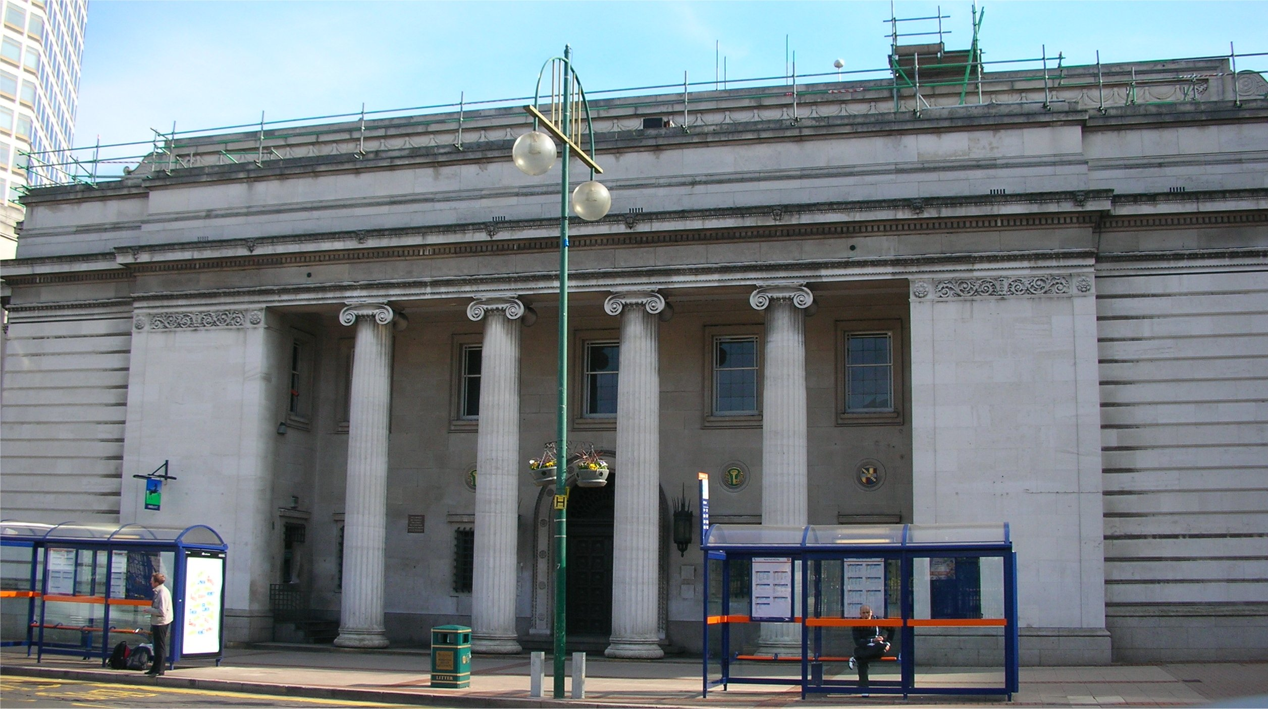 Birmingham Municipal Bank on Broad Street, Birmingham. Merged into the Trustee Savings Bank (TSB), then Lloyds TSB it has now become redundant.